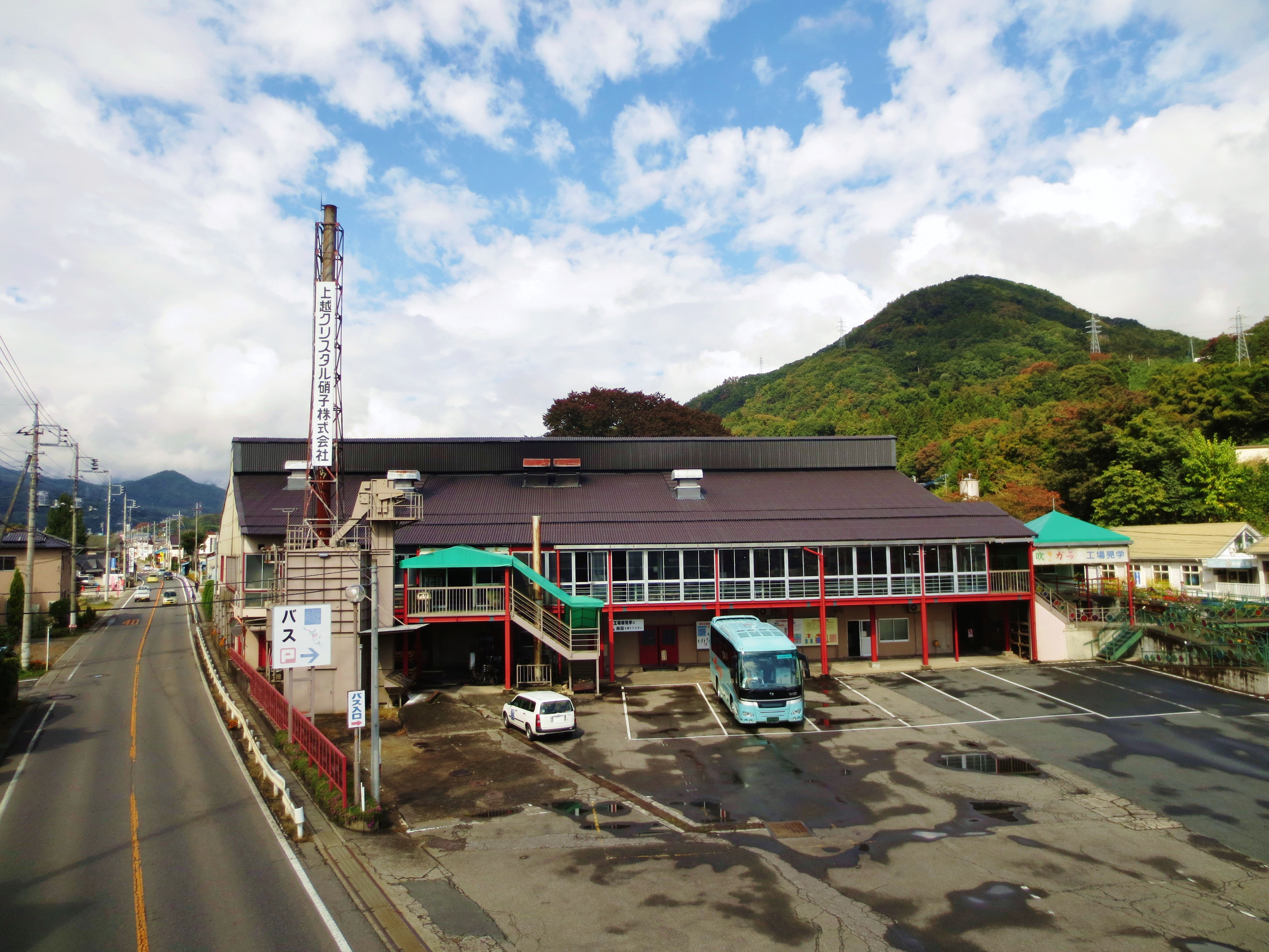 Tsukiyono Vidro Park.